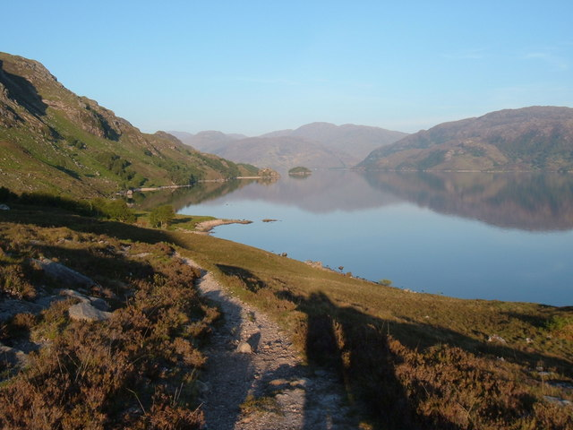 Loch Morar - a lasting memory. Getting back towards the car after a great day out, how we were rewarded with some wonderful views of Loch Morar.